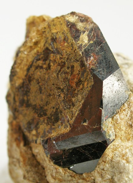 Rutile, Pyrophyllite Locality: Champion Mine (White Mountain Mine), White Mountain, Laws, White Mts, Mono County, California, USA (Locality at ) Size: 3.9 x 3.5 x 2.7 cm. A highly lustrous, euhedral, sharp, deep wine-red rutile crystal is perched atop pyrophyllite matrix on this classic, older material from the Champion Mine of California. The crystal measures 2.4 x 2.4 cm. Classic material, much rarer than Georgia rutile. Ex. Mullane Collection.